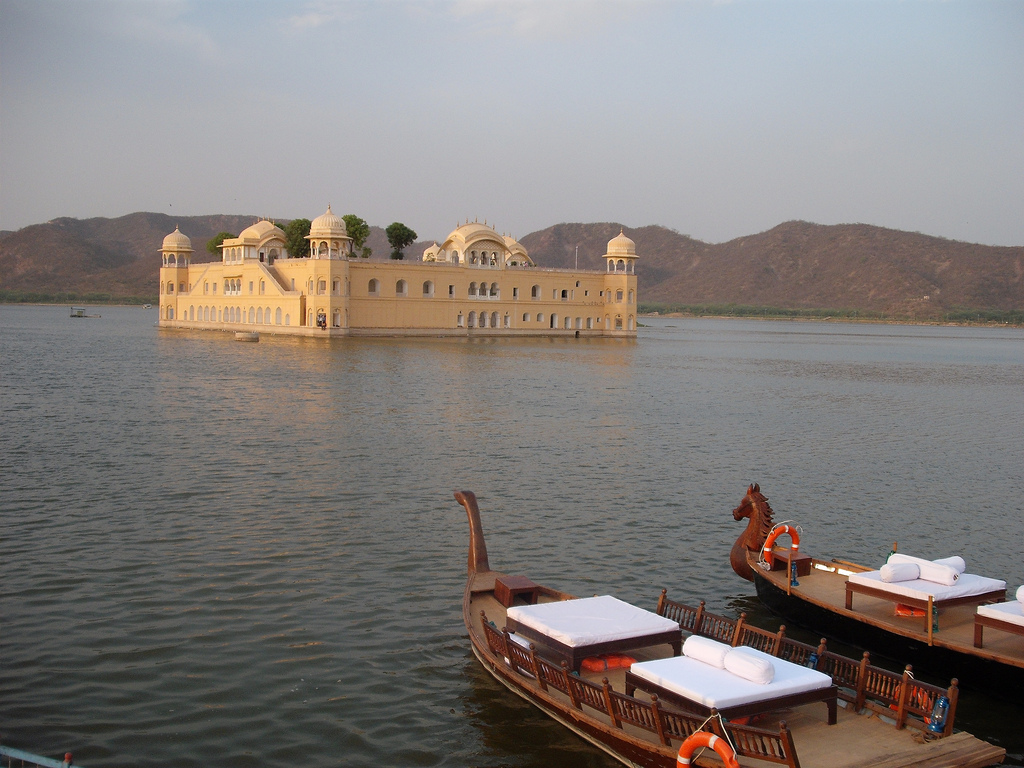 A picture of the restored Jal Mahal palace site.